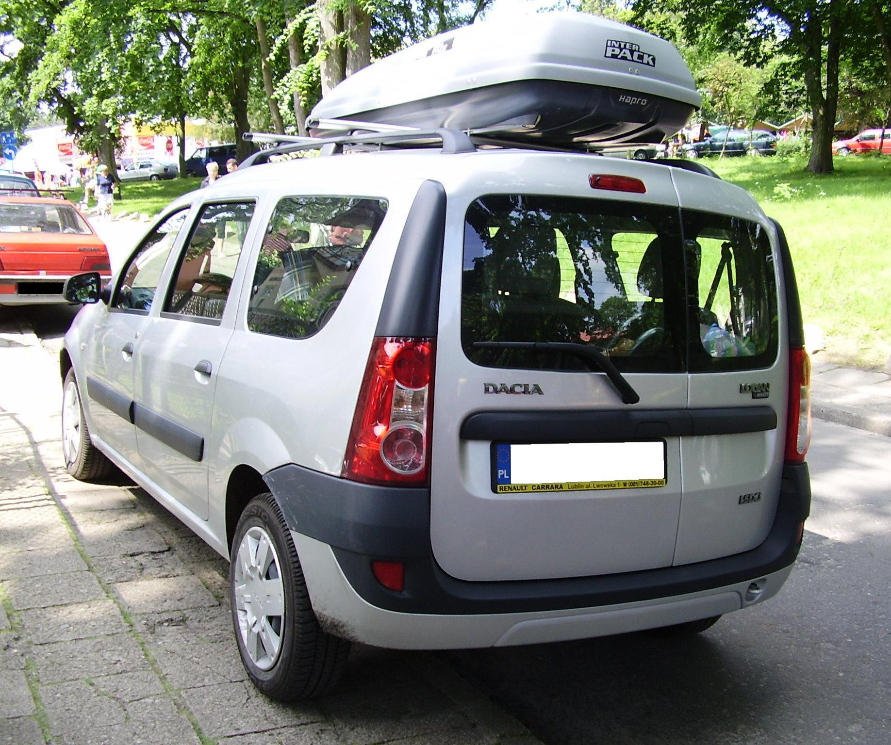 Dacia Logan MCV in Międzyzdroje (Poland)